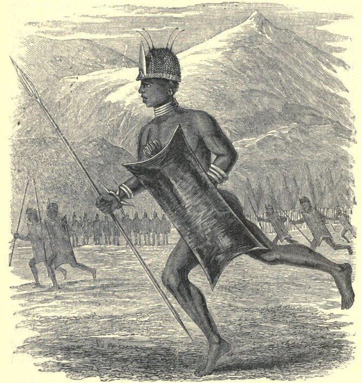 Lotuko chief Commoro running to the fight